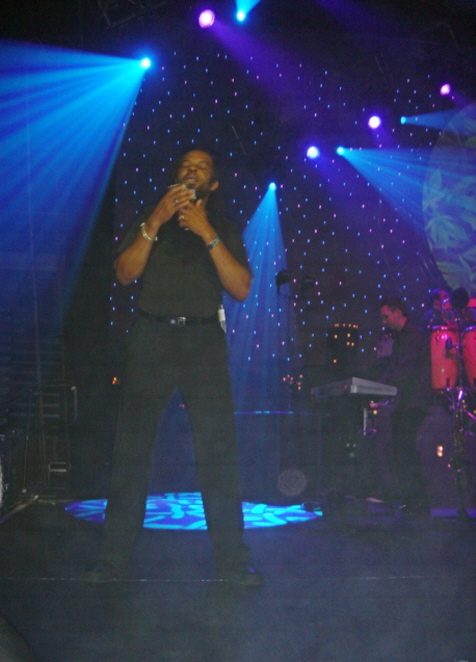 UB40 band member Astro, on stage in Wellington, New Zealand, August 2004